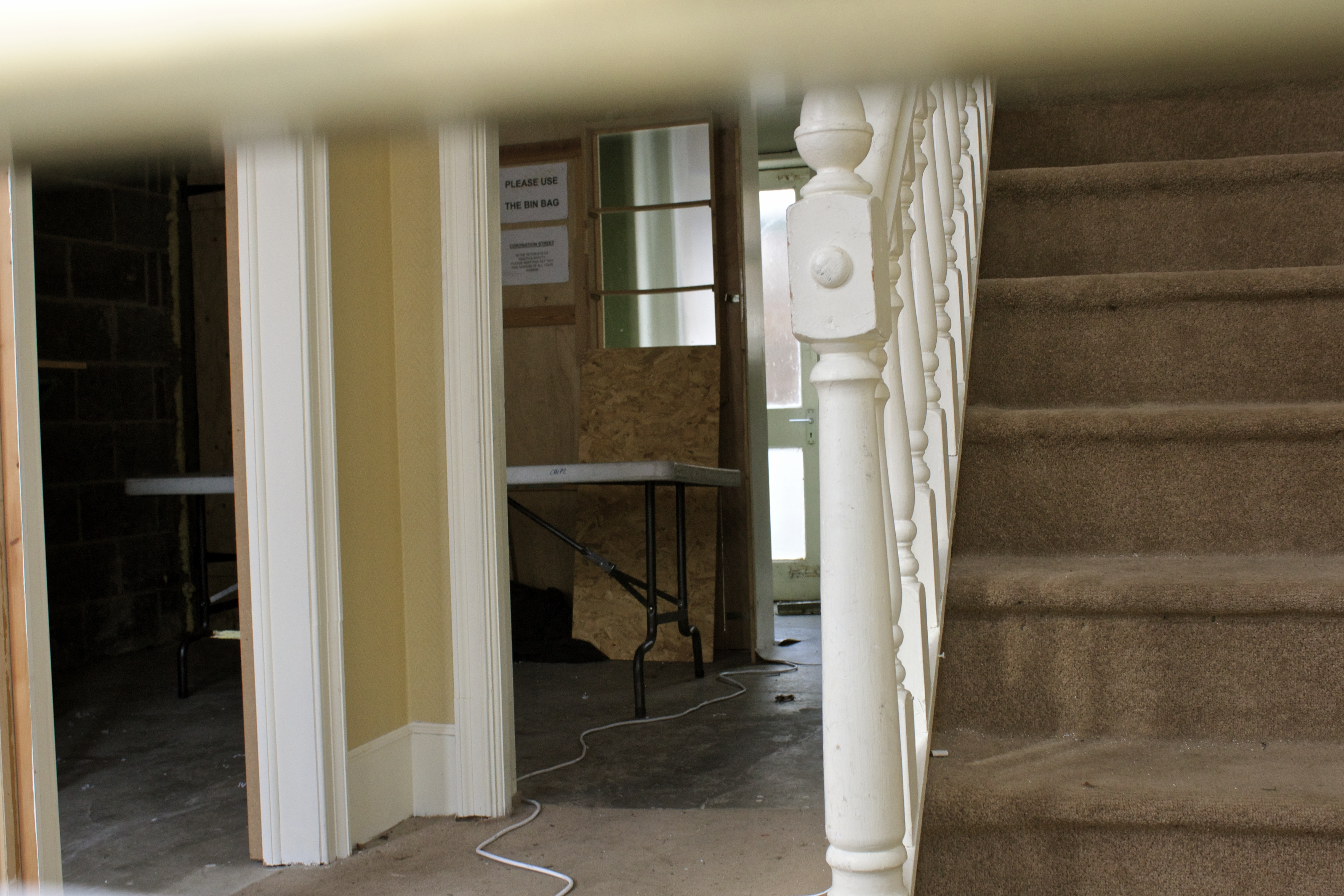 Looking through the letterbox at One Coronation Street, Granada Studios, Manchester to reveal the empty interior shell.